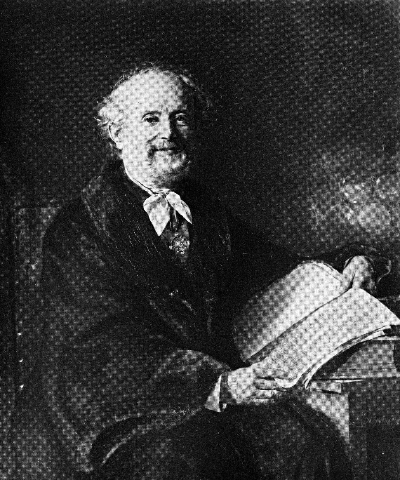 Wilhelm Eduard Weber (1804-1891)